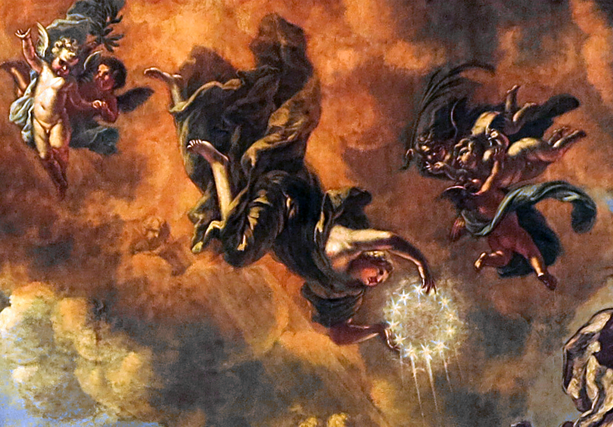 The crown of immortality, as seen in the ceiling at the Swedish House of NobilityLatina: Corona immortalitatis